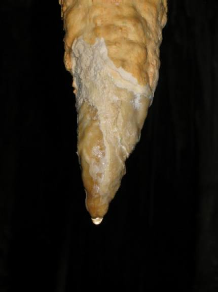 Stalactite in Grotte de Soreq, israel photo by yair talmor, 2006